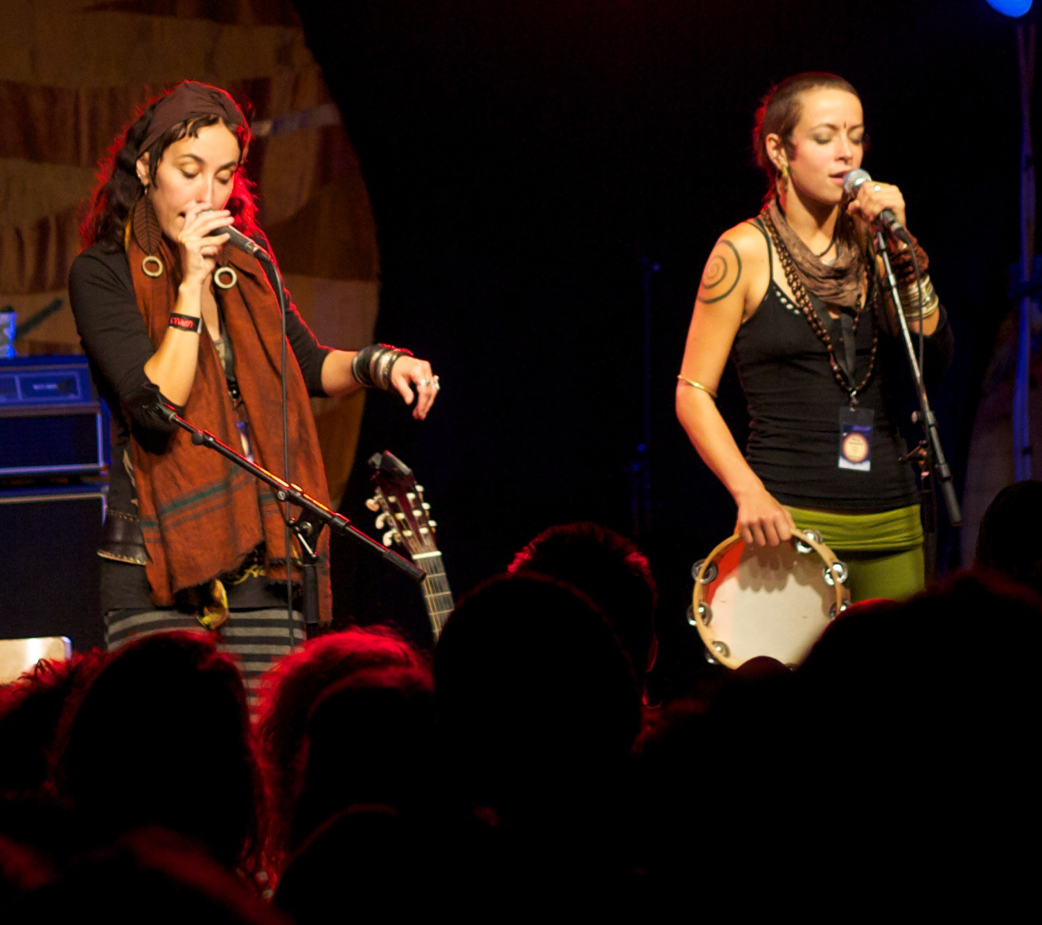 Detail of the photo on Commons Rising Appalachia duo at the Urkult 2011 festival in Sweden.